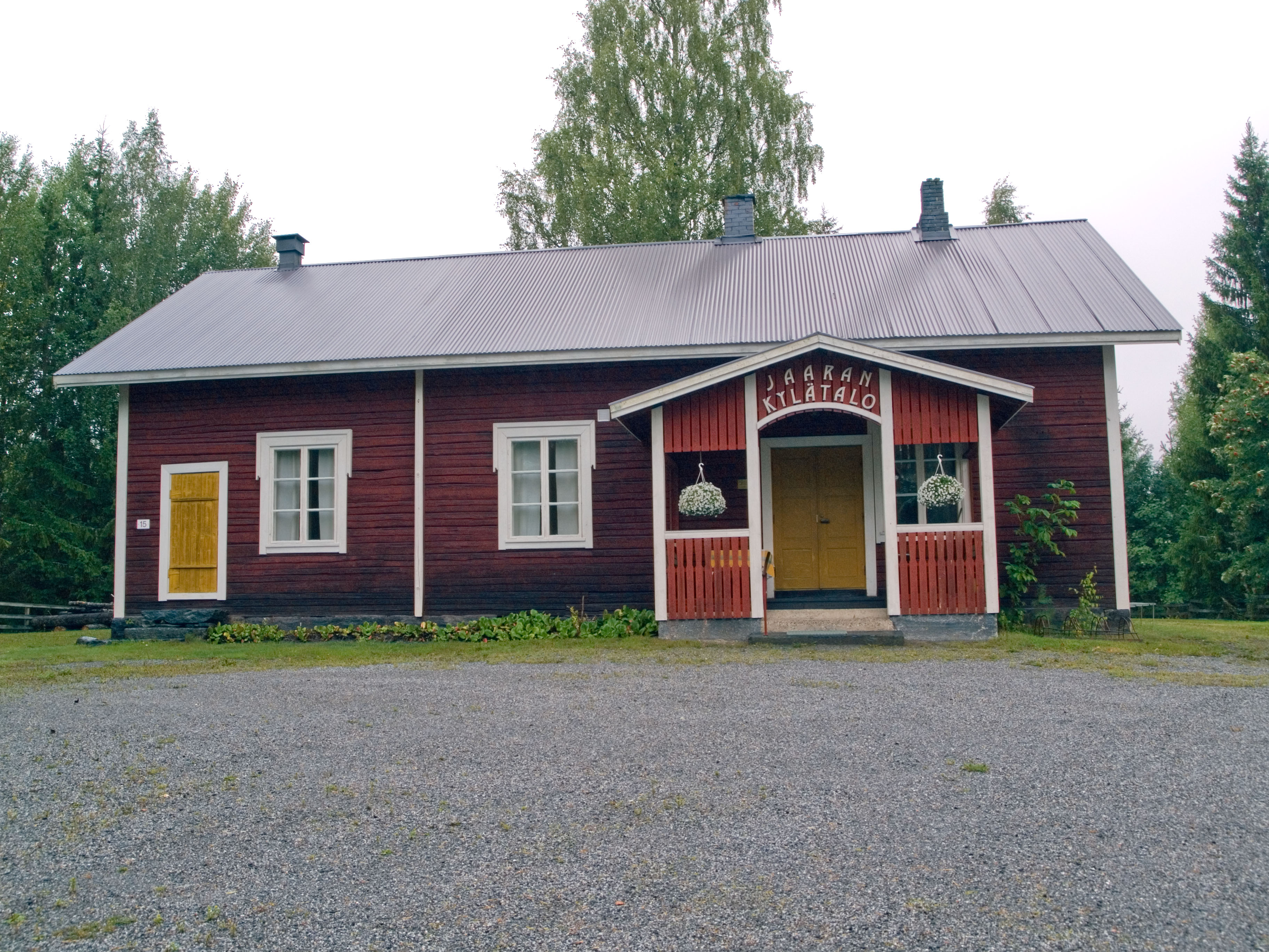 Hall for social gatherings in Jaara village, formerly belonging to Kiikoinen municipality, now part of Sastamala, Finland.